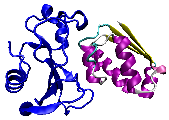 The tightly bound complex between the Bacillus amyloliquefaciens proteins barnase and barstar (PDB ID 1BRS). The ribonuclease protein barnase is colored in blue and its inhibitor barstar is colored by secondary structure.